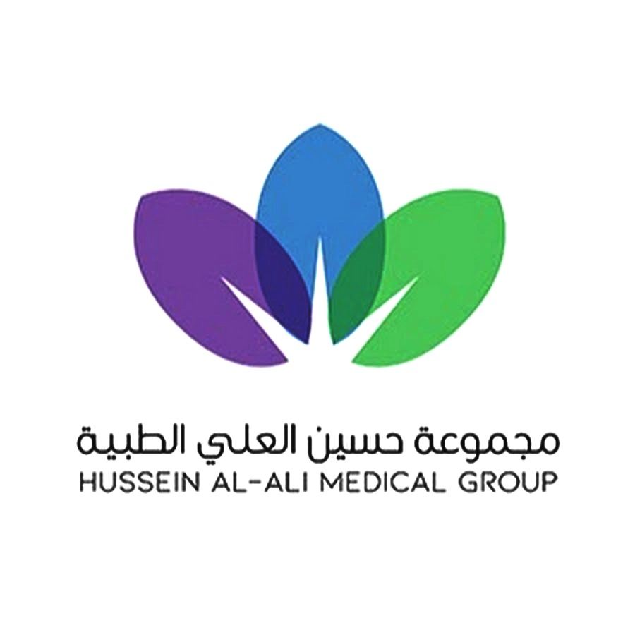 Hussein Al Ali Hospital logo 2019